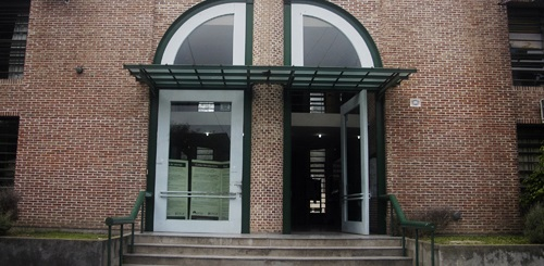 Building located at 122 avenue and 60 avenue. La Plata.